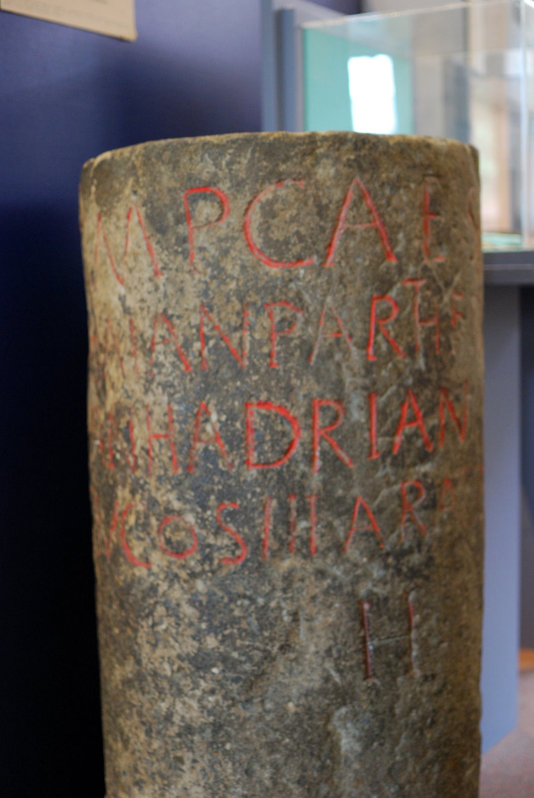 A Roman Miliaria in the Jewry Wall Museum, Leicester, mentioned the emperor Hadrian. Found in 1771, in situ on W side of Fosse Way near Thurmaston, 2 miles N of Leicester; dated AD119-120. See RIB-01, 02244 = CIL VII, 01169 on Epigraphik-Datenbank Clauss-Slaby : Imp(erator) Caes(ar) / div(i) Traian(i) Parth(ici) f(ilius) div[i Ner(vae)] nep(os) / Traian(us) Hadrian(us) Aug(ustus) p(ater) p(atriae) t[ri]b(unicia) / pot(estate) / IV co(n)s(ul) III a Ratis / m(ilia) II